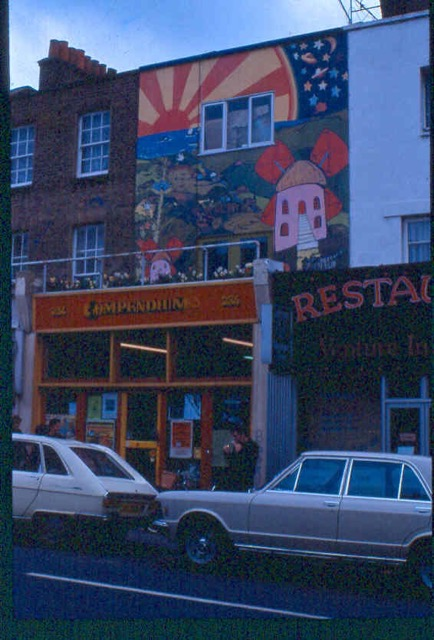 Compendium Books, a bookshop located in Camden Town, London